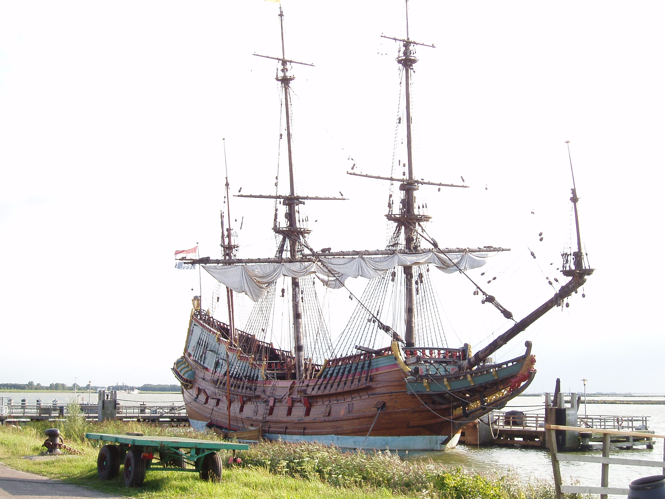 Ship Batavia - replica - in the Netherlands